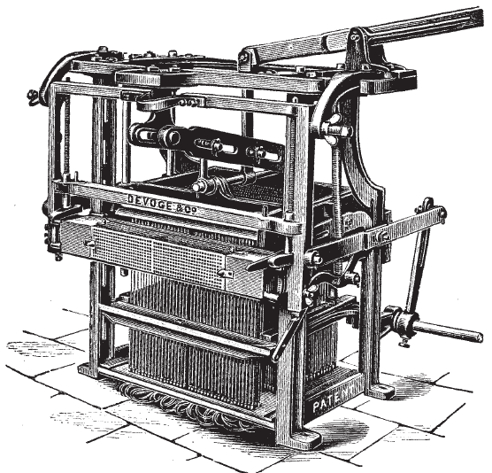 Patent leno Jacquard: Images from Marsden 1892 book on Cotton Weaving. *Marsden, Richard (1895) (in english) Cotton Weaving: Its Development, Principles, and Practice, George Bell & Sons, pp. 584 Retrieved on Feb 2009.